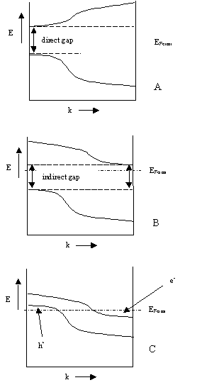 schematisch weergave van een directe, indirect halfgeleider en een halfmetaal Top (A): Direct Band Gap Semiconductor Middle (B): Indirect Band Gap Semiconductor Bottom (C): Semimetal (negative band gap) Label to right appears to be indicating Fermi Energy (not visible on all) this is PNG version